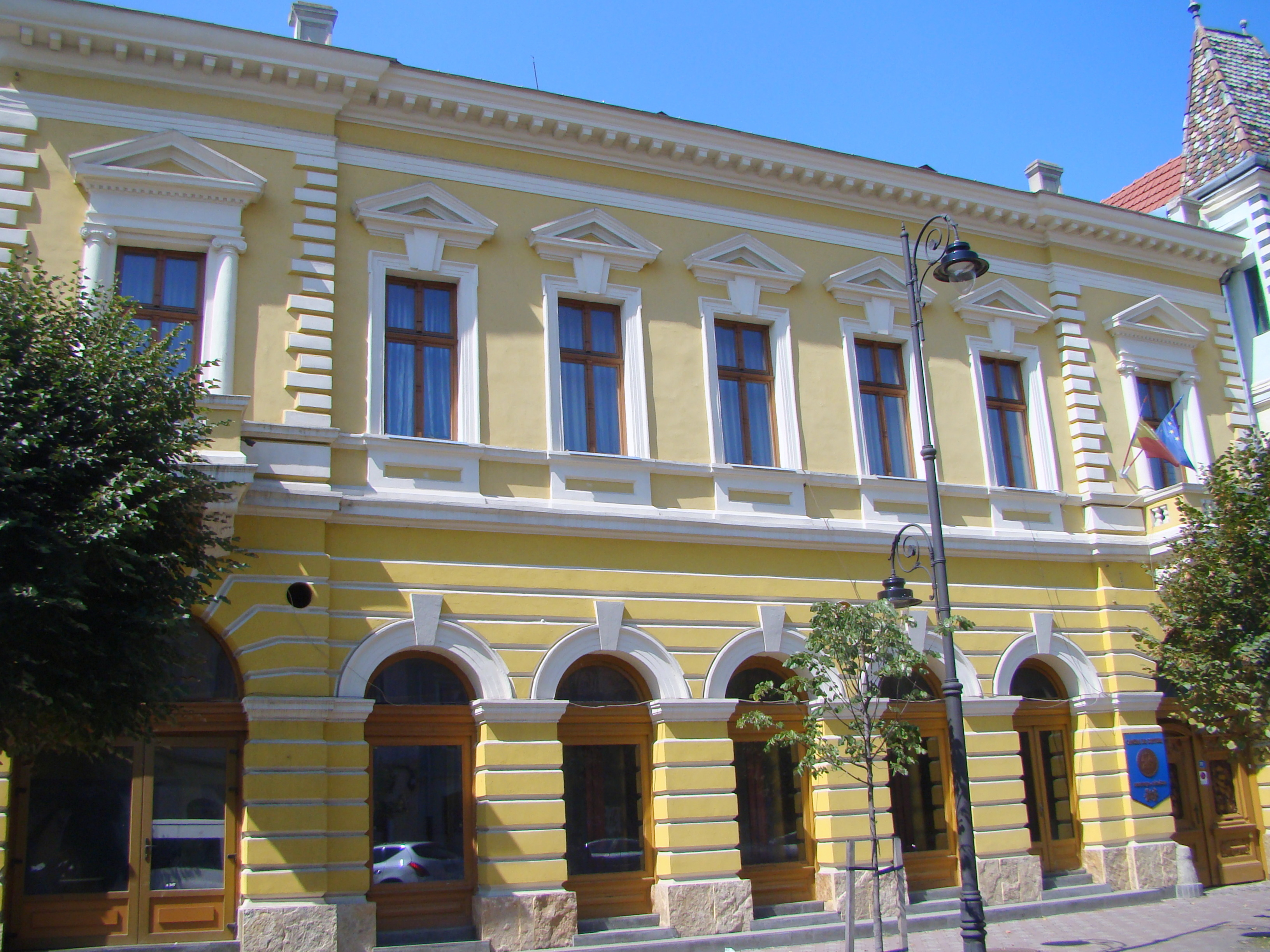 House, historic monument, in Bistrița, Gheorghe Șincai street 22